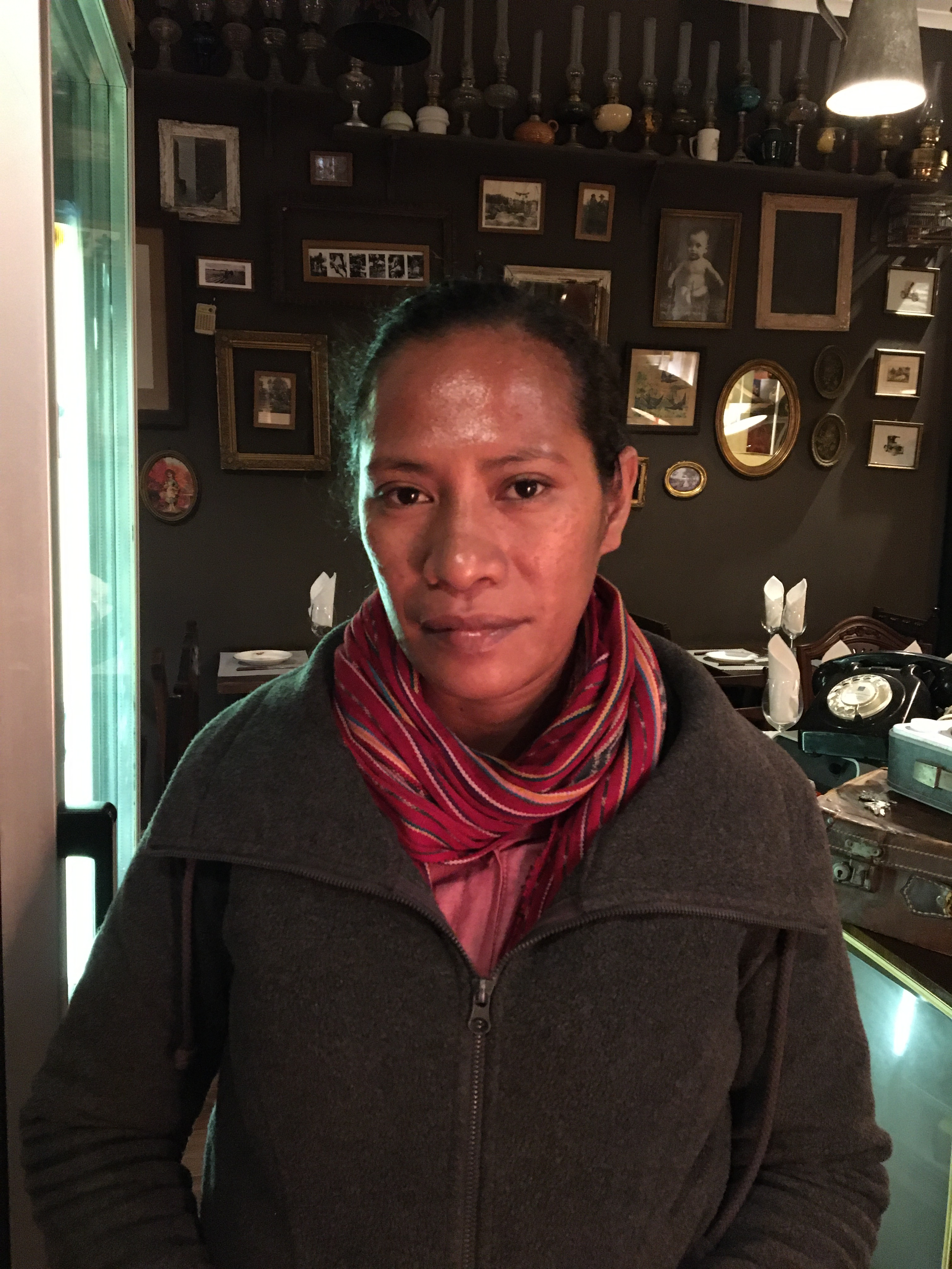 Bety Reis, a filmmaker and producer from Timor-Leste, in Lisbon, in Januery 2020, when she participated in the encounter between artists and creatives from Portuguese speaking African countries and Timor-Leste, pormoted by ACEP - Associação para a Cooperação Entre os Povos, o portuguese NGO.